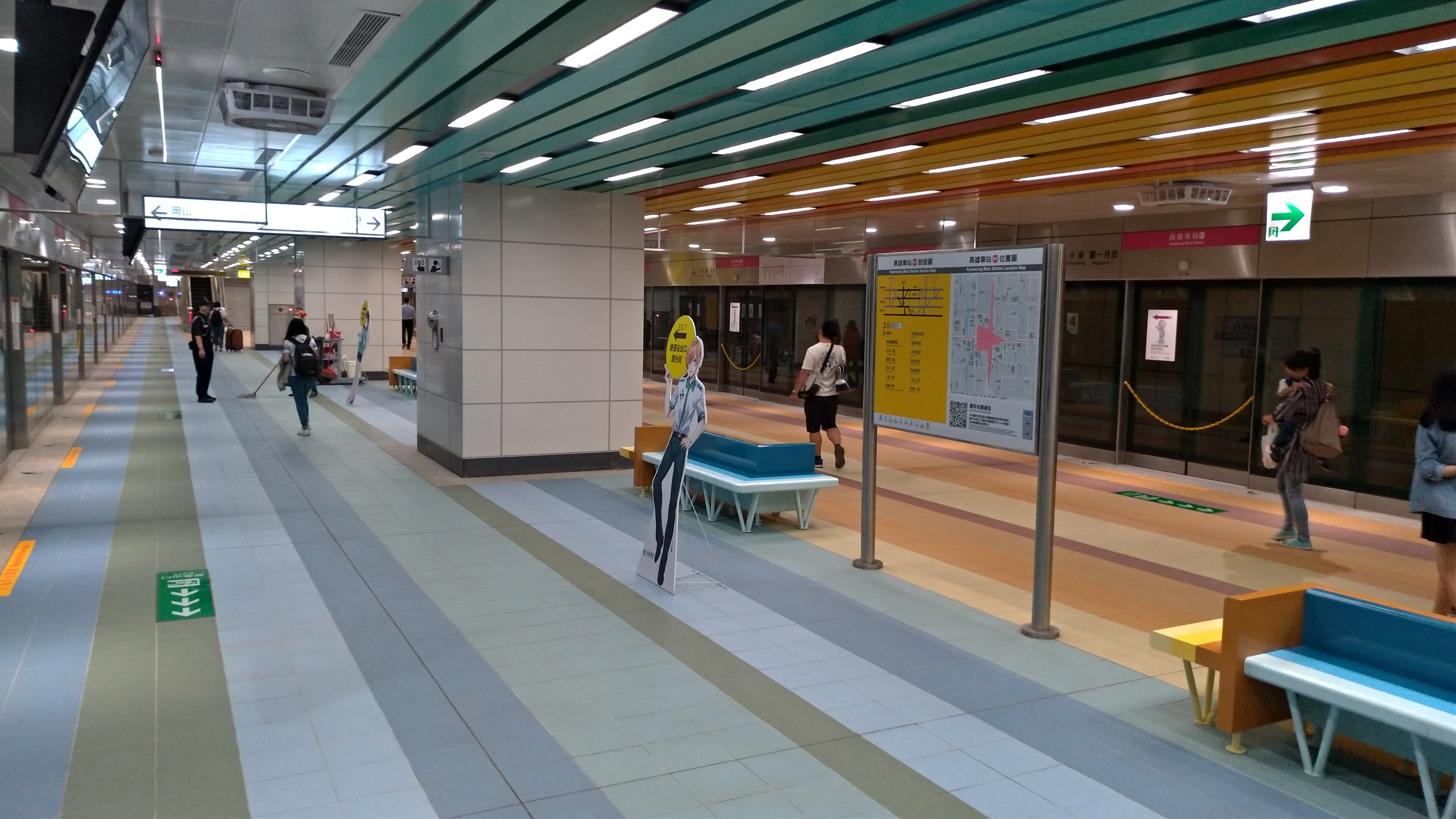 MRT platform of Kaohsiung Main Station.